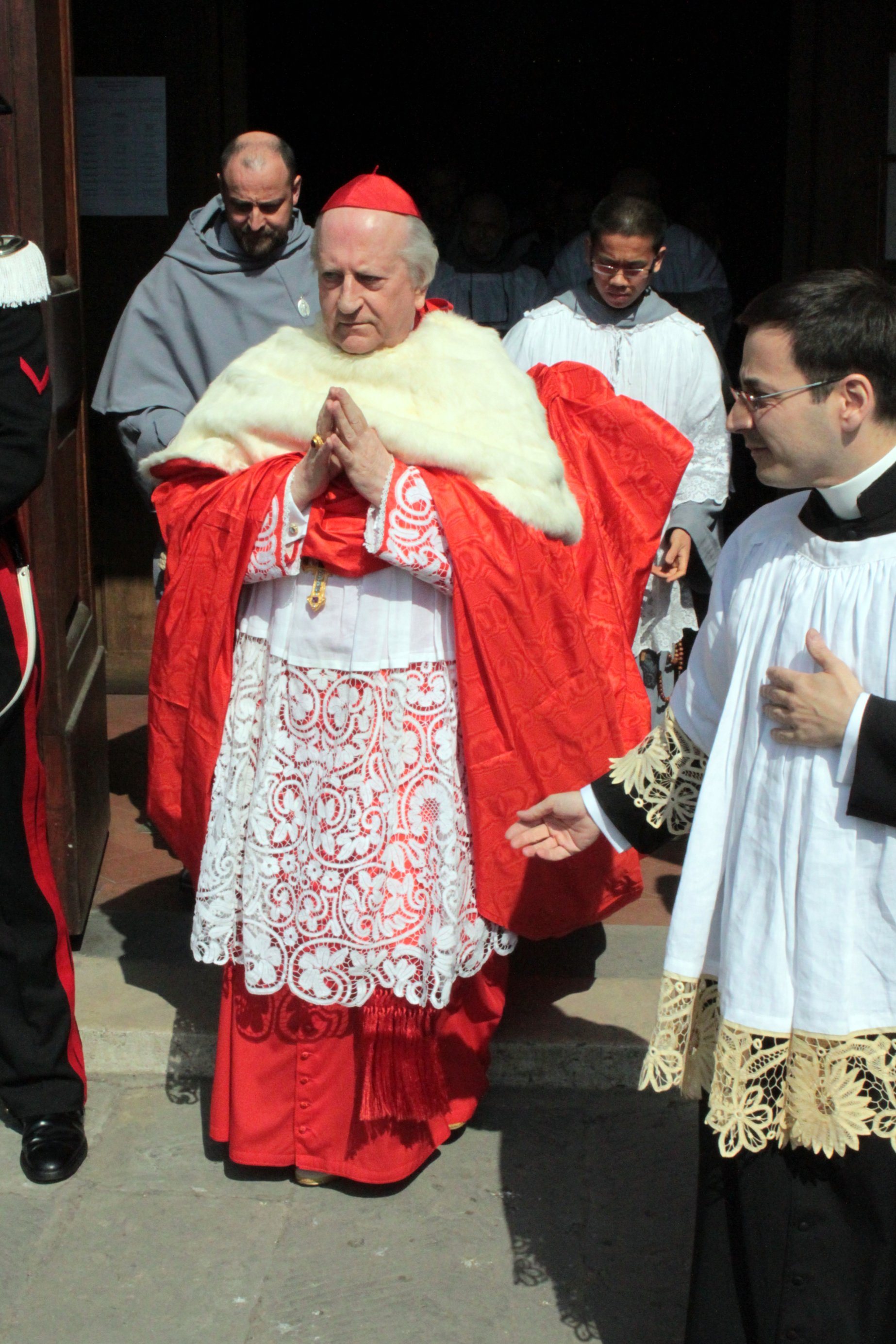 Franc Cardinal Rodé wearing the winter Cappa magna